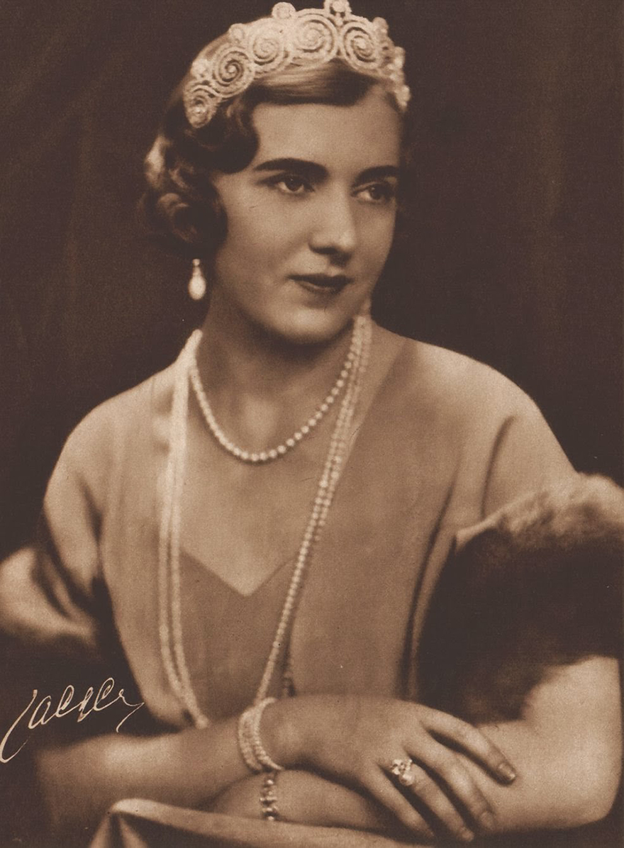 Queen Ingrid of Denmark (nee princess of Sweden), wearing the Khedive of Egypt diadem by Cartier